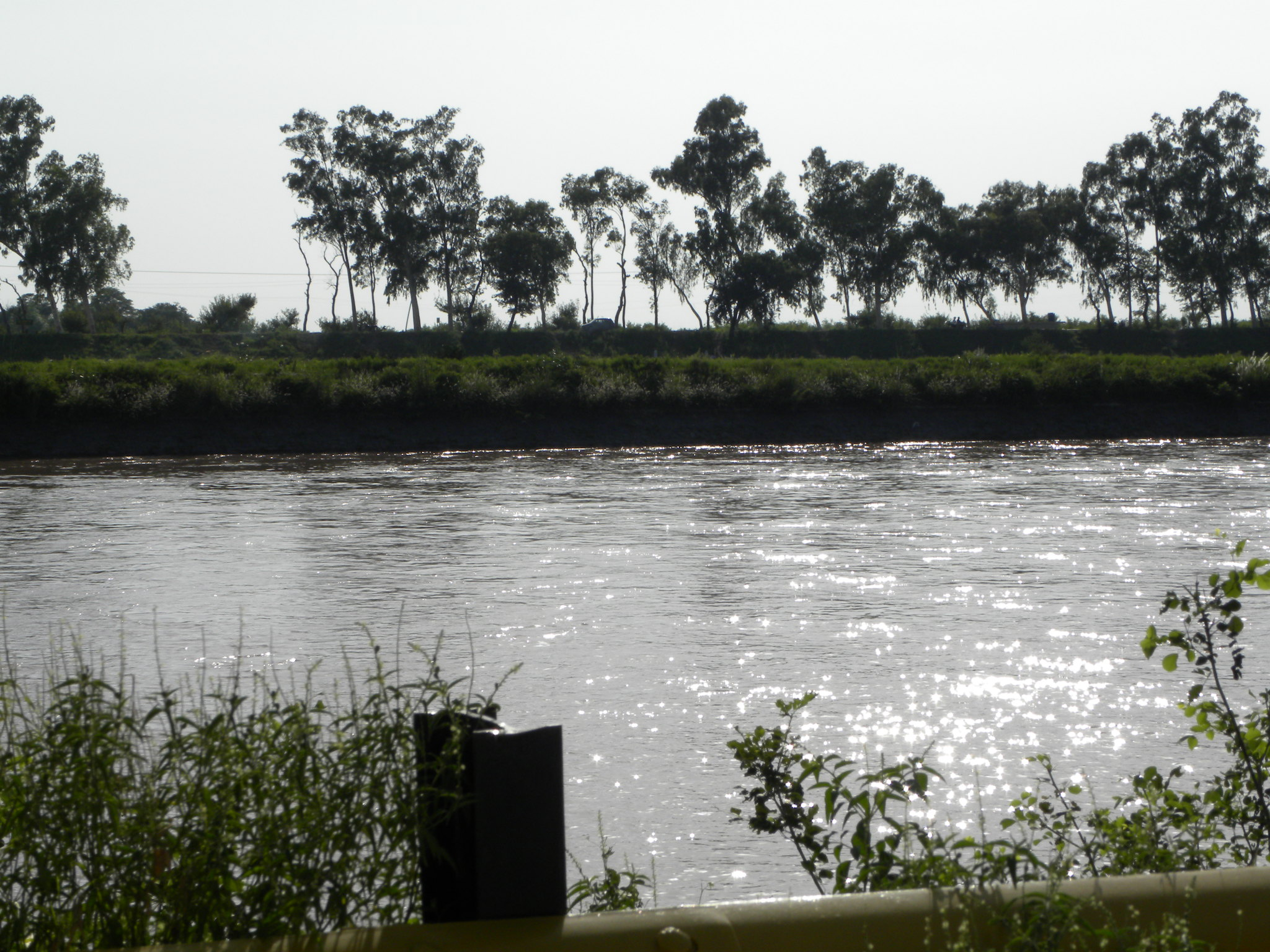 Picture of canal at chenab river